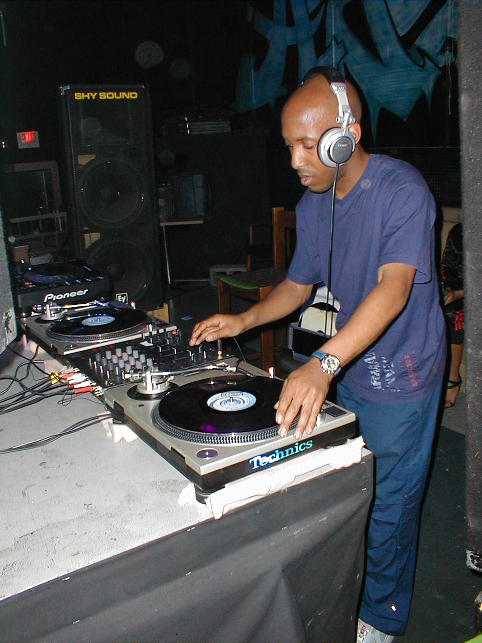 Shy FX taken at a rave in Springfield Massachusetts in 2004.